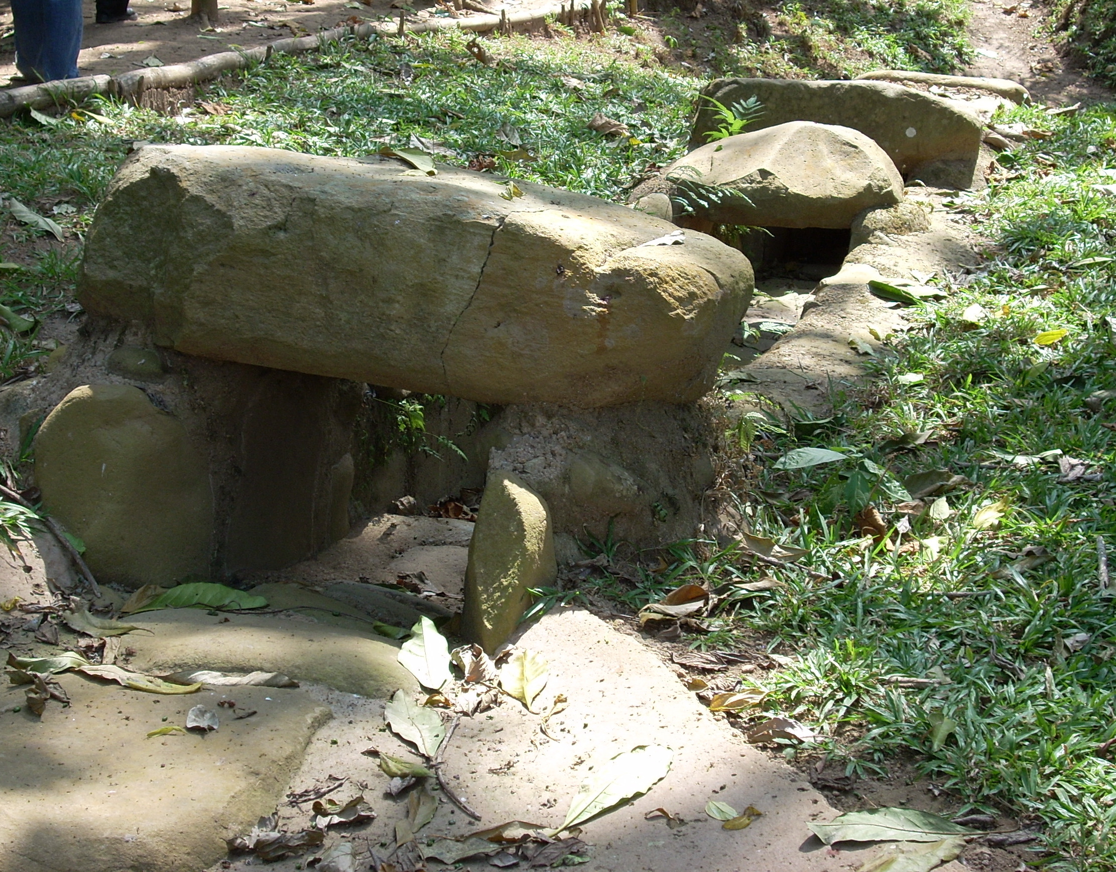 Late Classic drainage channel by Structure 7 at Takalik Abaj, Retalhuleu department, Guatemala.